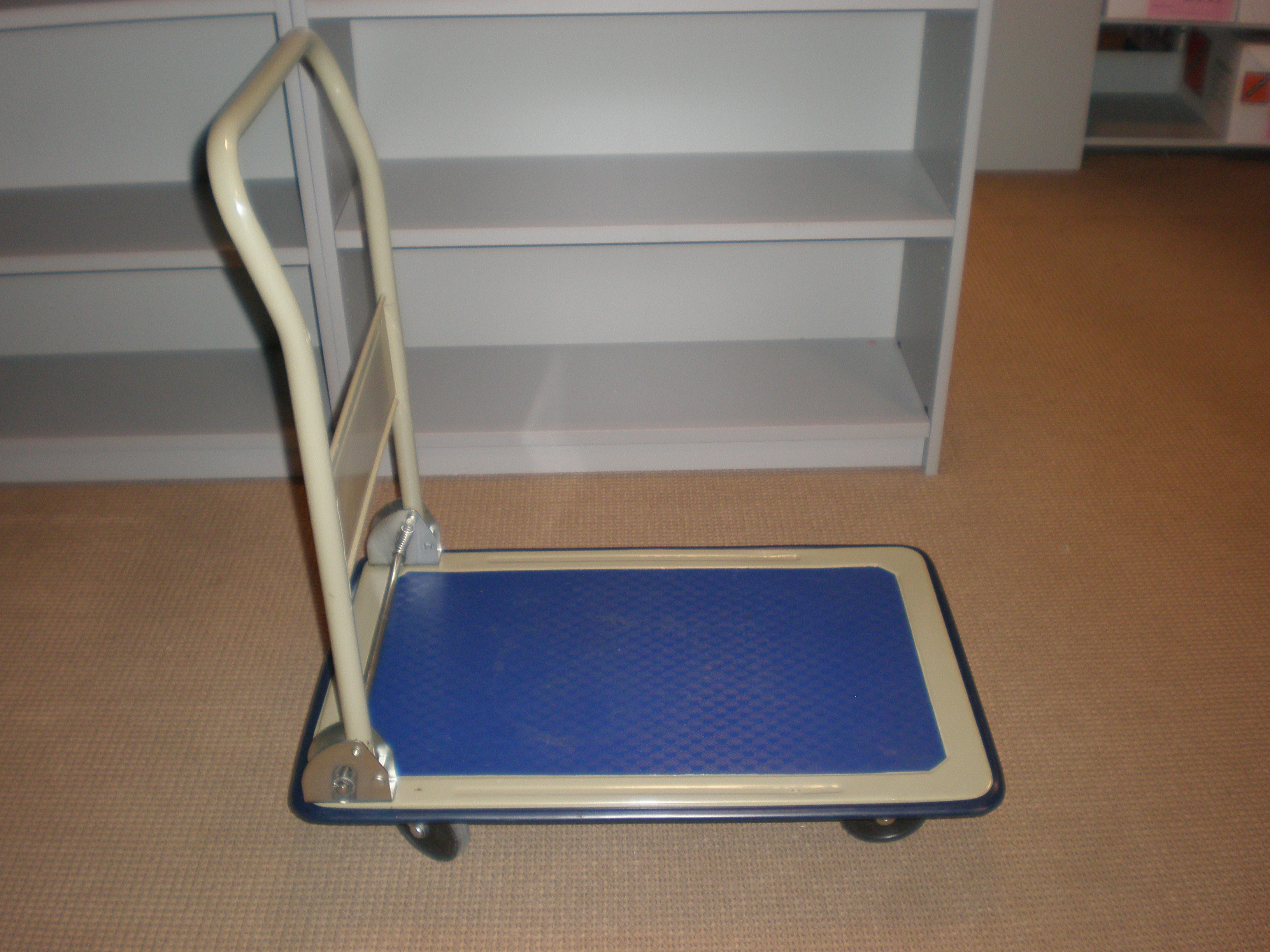 A small hand truck with blue padding on the surface for traction.